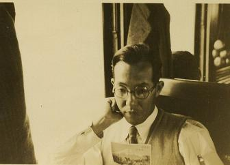 Jirō Horikoshi took a train on October, 1938.